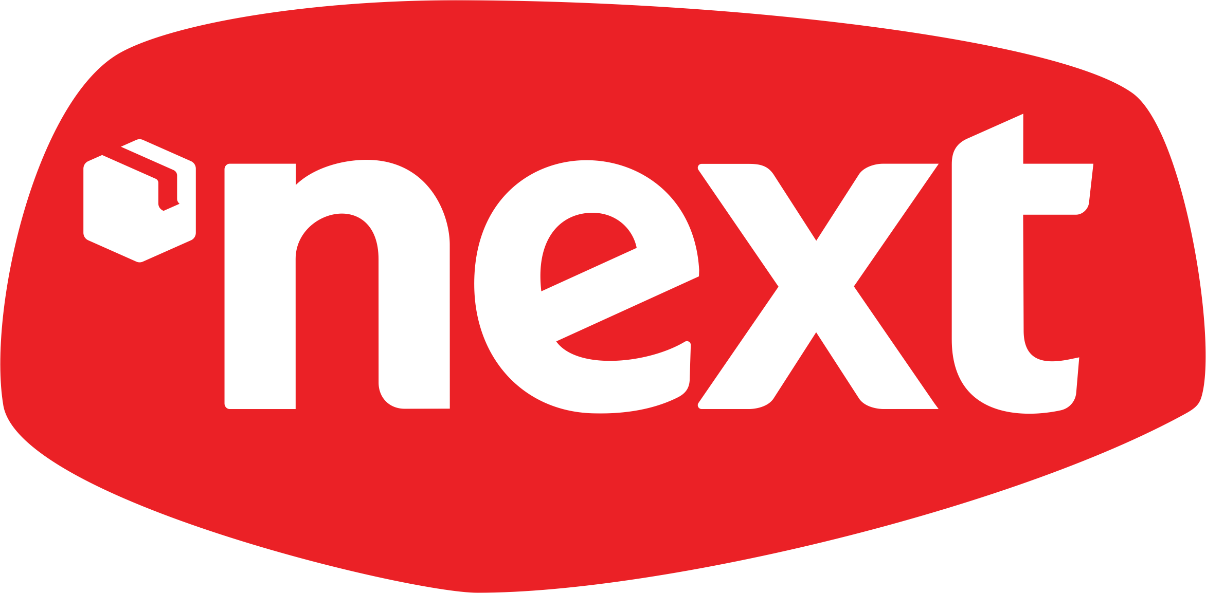 Монгол: Rebranded logo of Next Electronics LLC